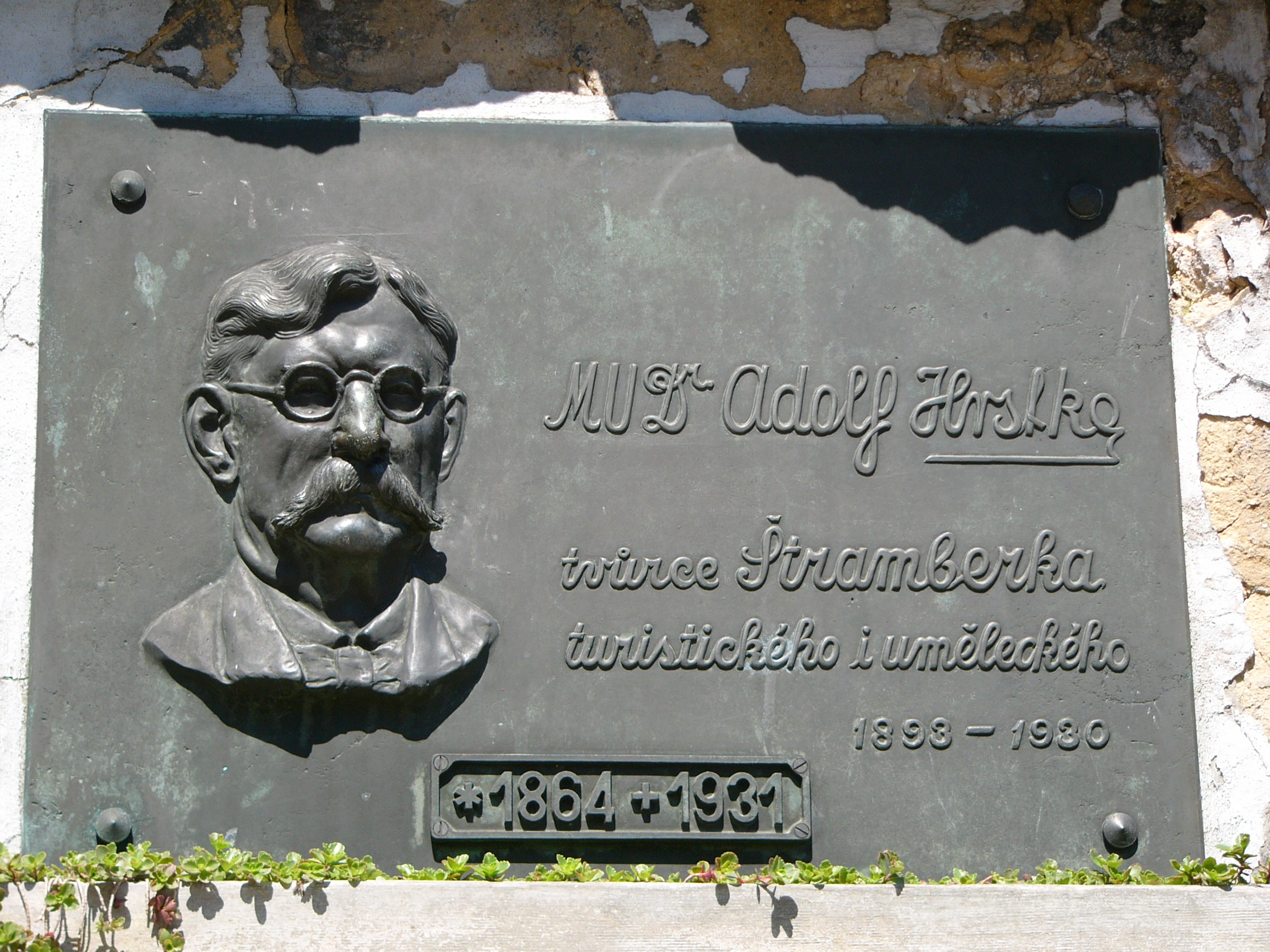 Memorial plaque of Adolf Hrstka in Štramberk (Czech Republic).